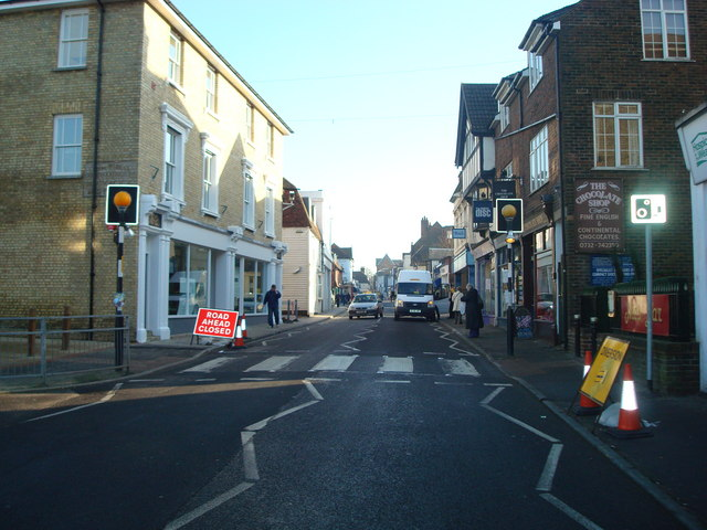 London Road, Sevenoaks, Kent, Great Britain